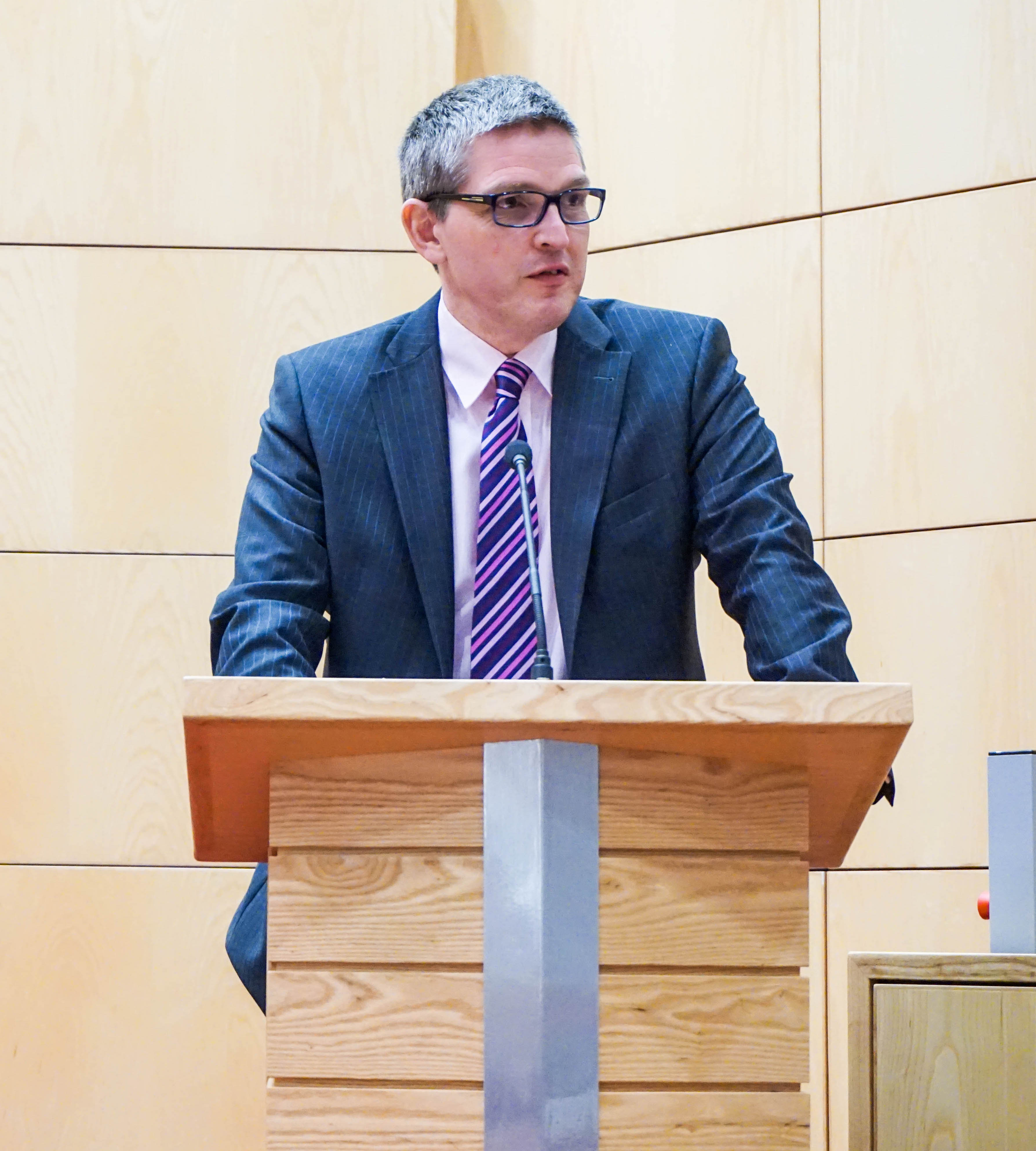 Journalist Will Leitch of the BBC speaking in Belfast in 2015